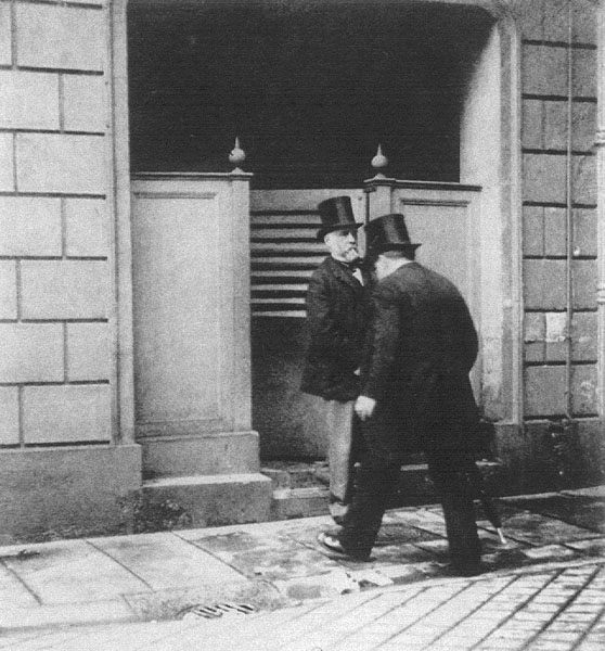 Edgar Degas emerging from a Parisian public toilet, 1889. Photo by Giuseppe Primoli (1851–1927). Discussed here